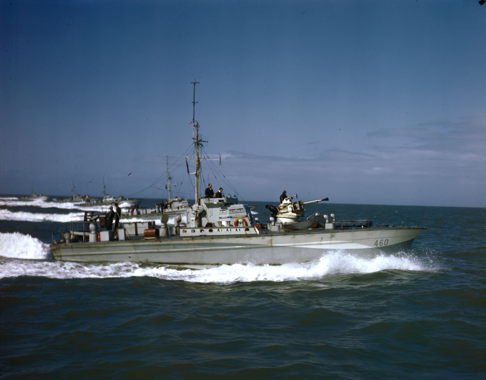 Canadian motor torpedo boat MTB-460. Commissioned in March 1944 and sunk on the night of July 2nd, 1944, so photograph taken between those dates.